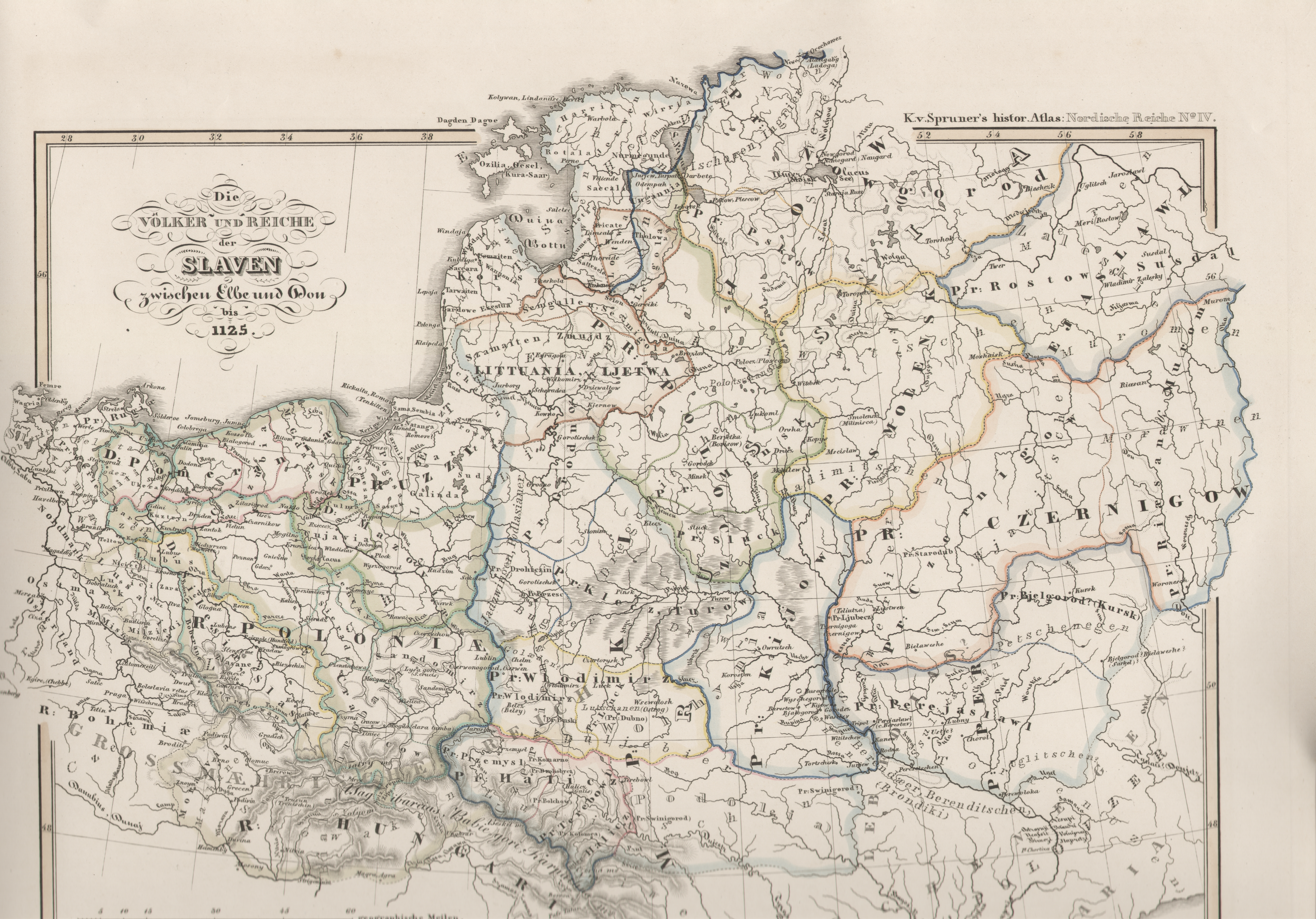 Slavic peoples and states between Elbe and Don until 1125